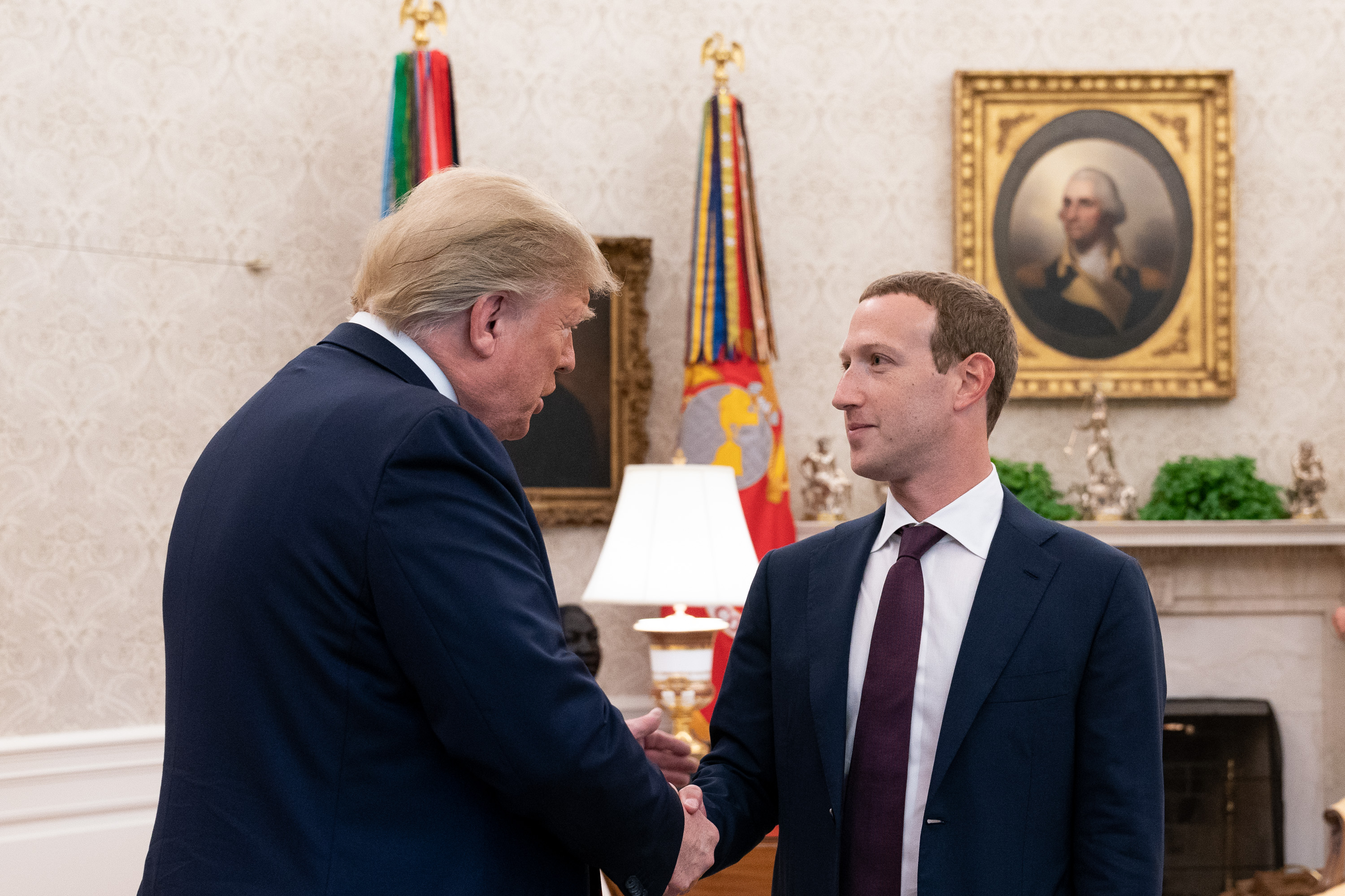 President Donald J. Trump welcomes Facebook CEO Mark Zuckerberg Thursday, Sept. 19, 2019, to the Oval Office of the White House. (Official White House Photo by Joiyce N. Boghosian)